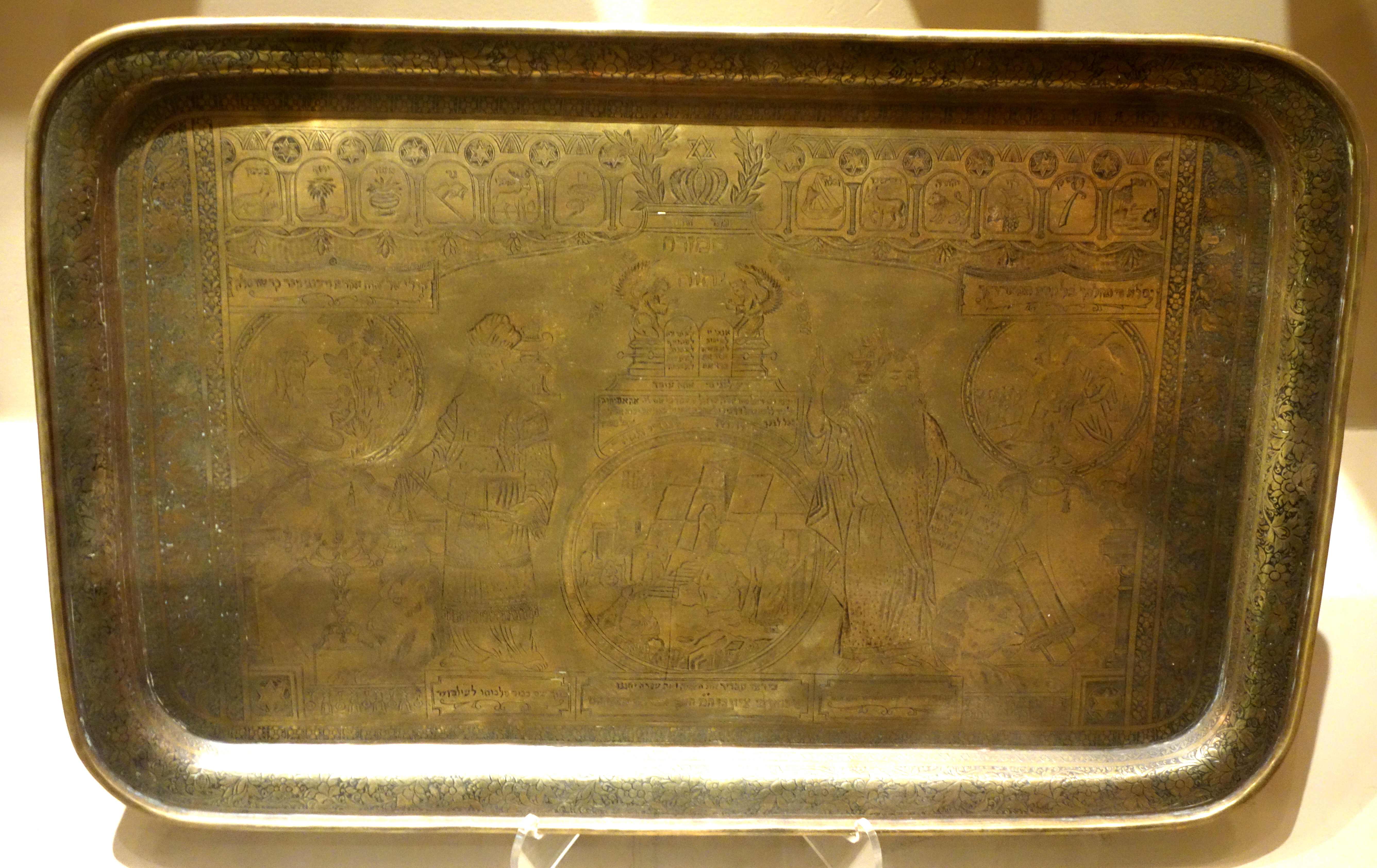 Exhibit in the Huntington Museum of Art, Huntington, West Virginia, USA. This artwork is in the public domain because the artist died more than 70 years ago.